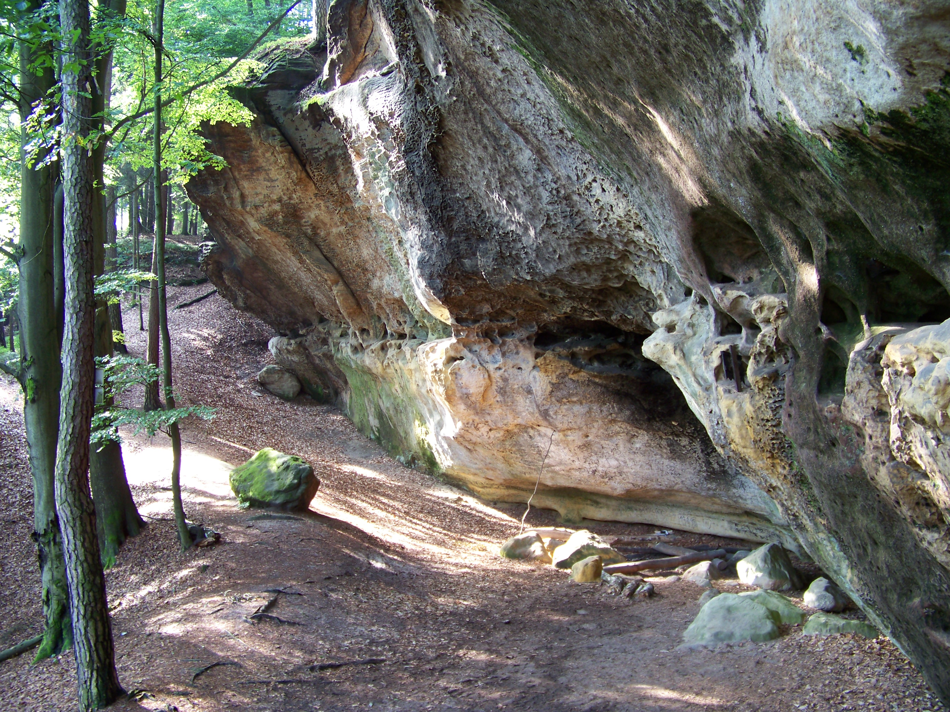 Krápník half-cave. Protected Landscape Area of Kokořínsko. (Cadastral area of Tuhanec, Česká Lípa District, Liberec Region, the Czech Republic.)